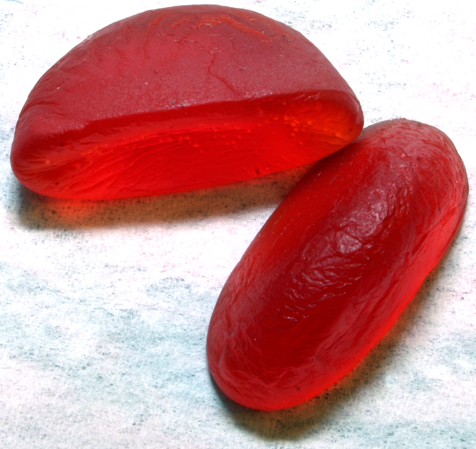 "Pimpim" candy from Malaco candy brand